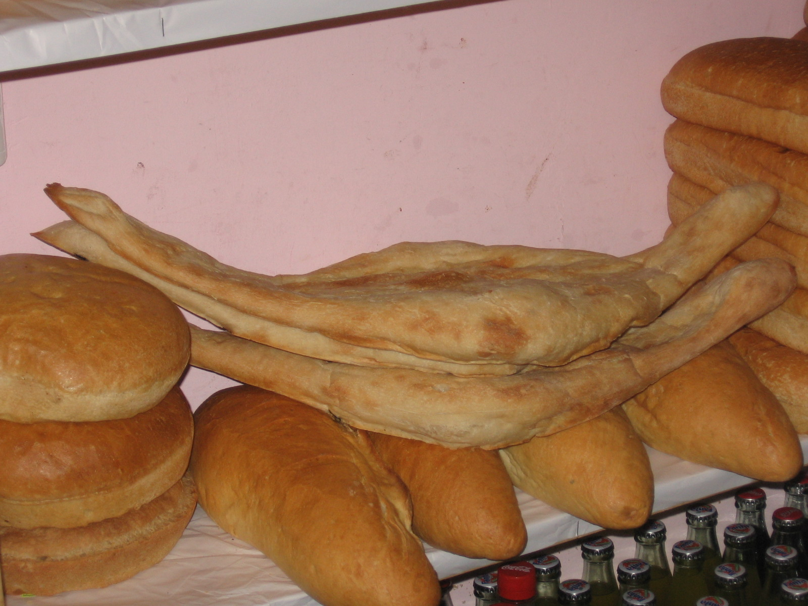 Shoti Georgian bread